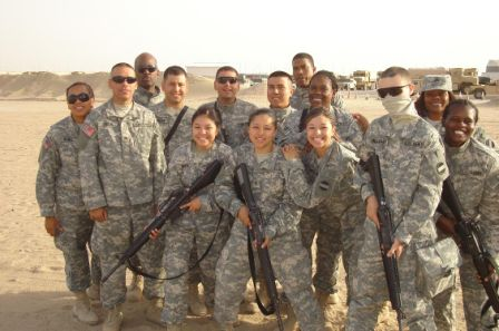 SKIP care package recipients in Iraq